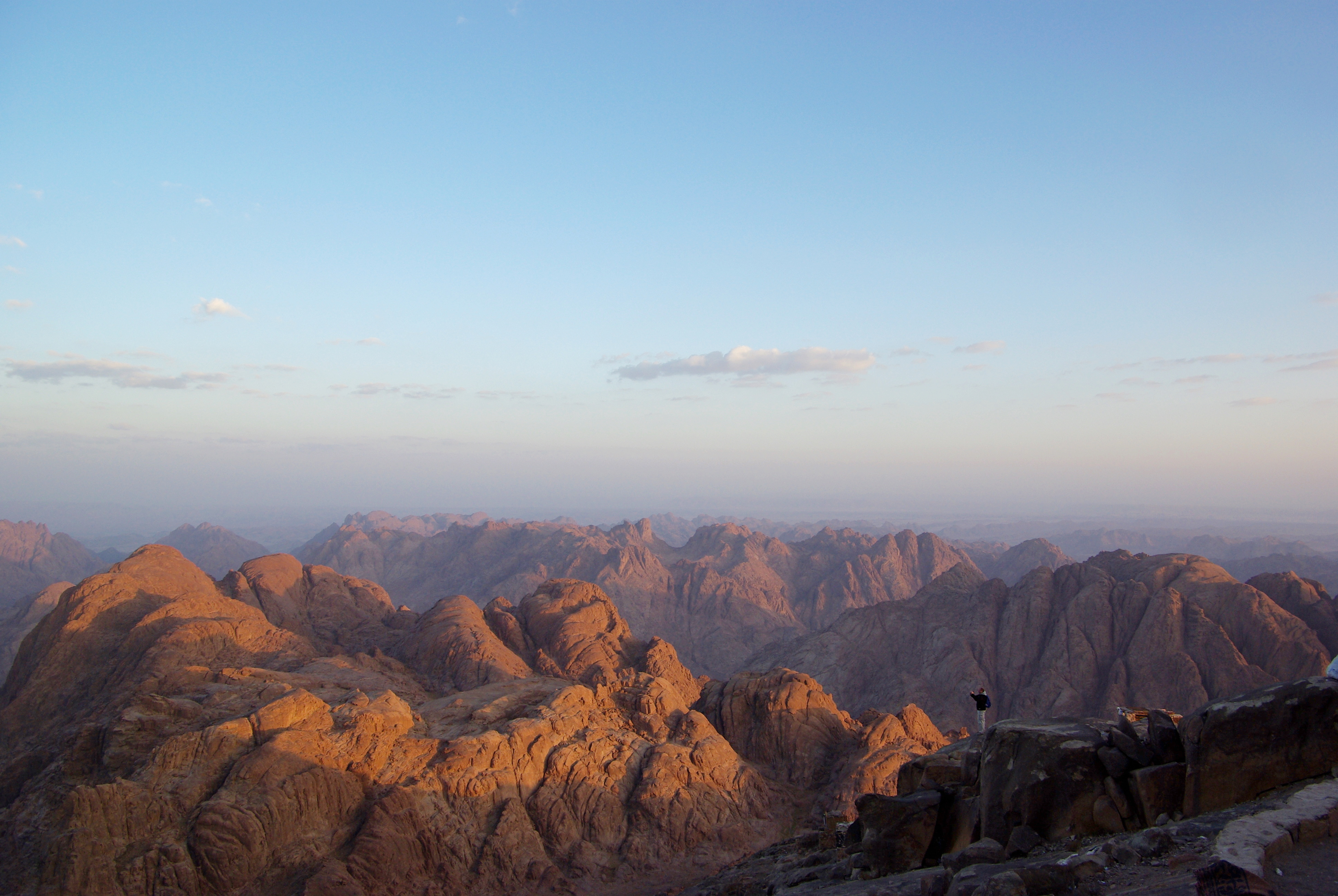 Sinai peninsula, view from Mount Sinai